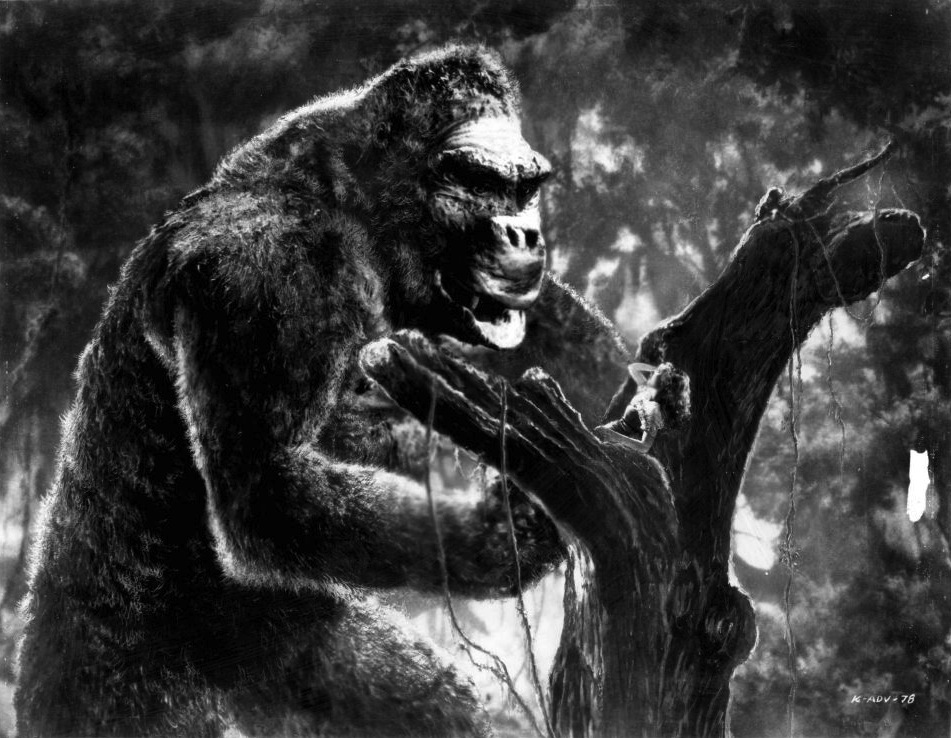 Publicity photo of American actress Fay Wray promoting the 1933 feature film King Kong.